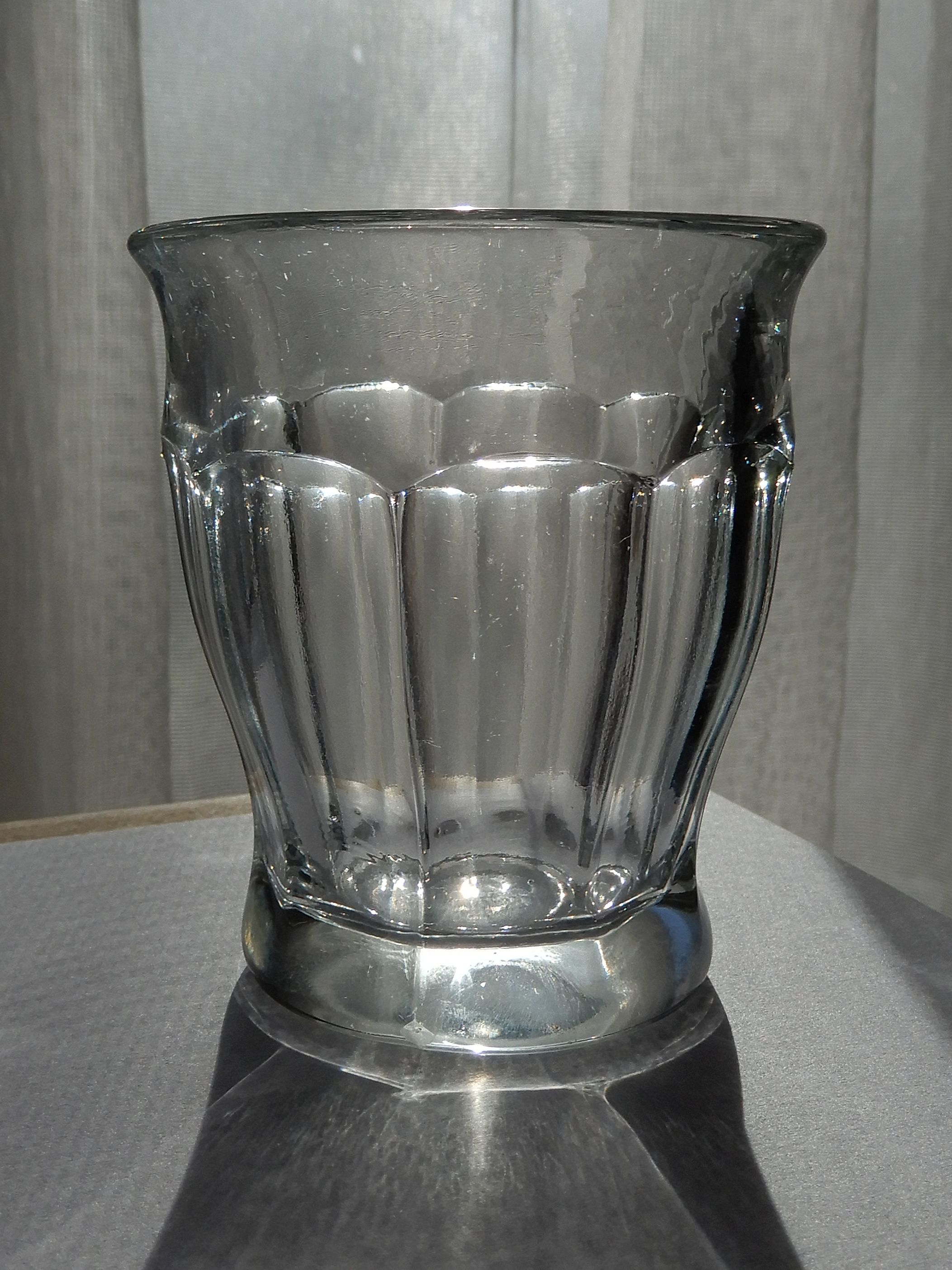 Drinking glass Durit, Josef Inwald, glassfactory Josef Inwald, Prague-Zlíchov, 1914-1940, smaller sizeː content 0,1 liter